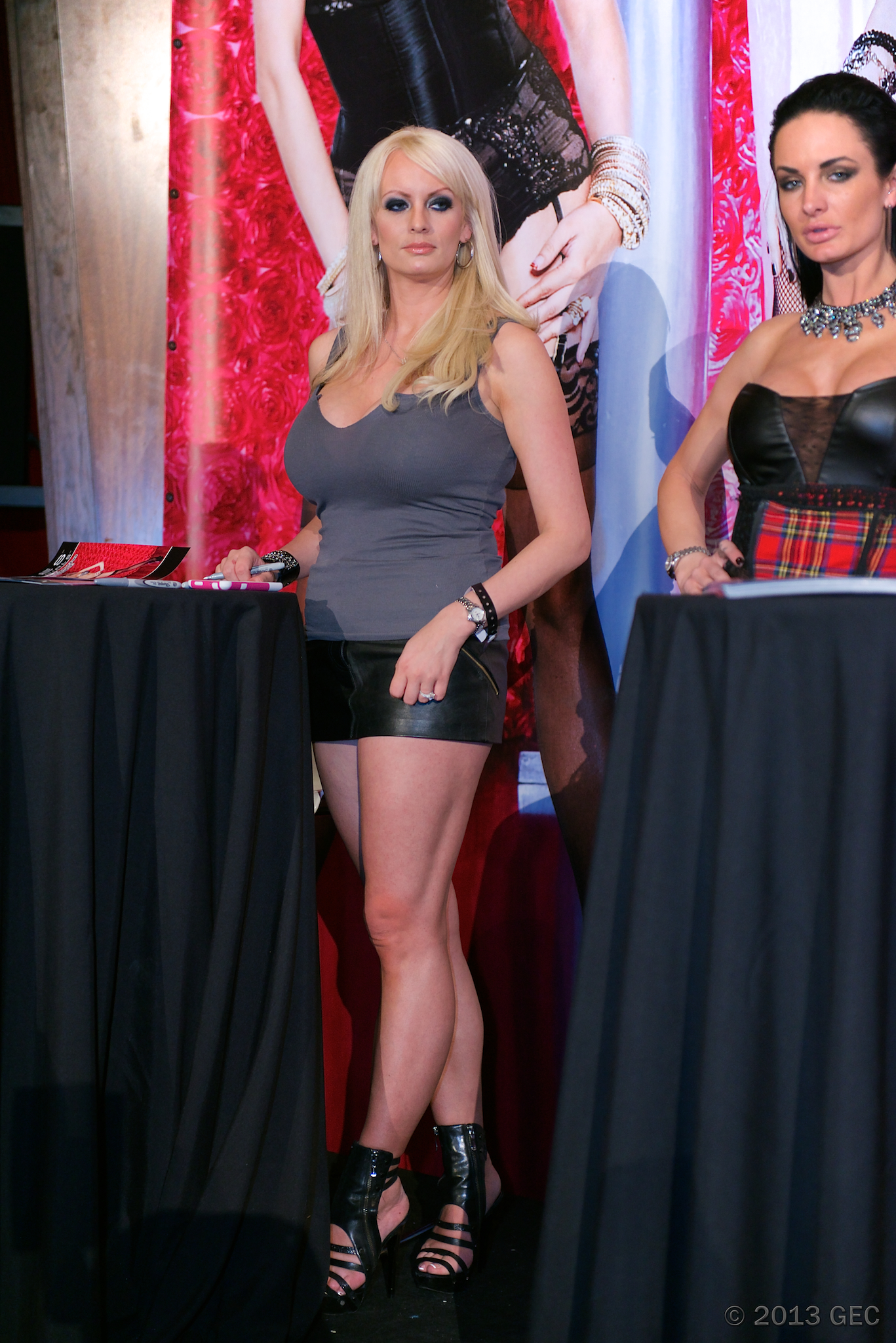 2013 AVN Adult Entertainment Expo AEE at Hard Rock Hotel - Las Vegas. 2013 © GEC.